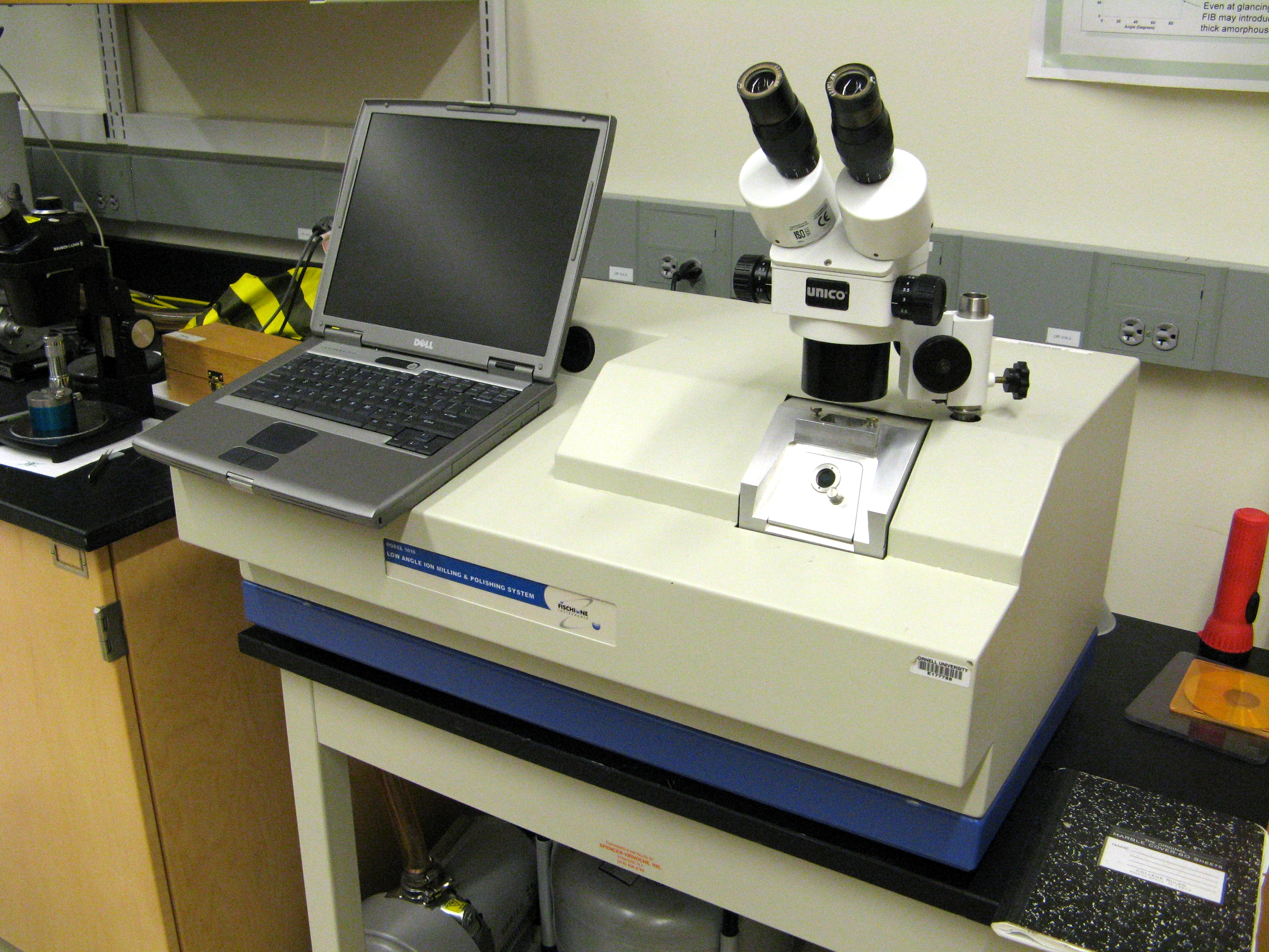 Ion Milling Machine. Photograph taken at Cornell University.